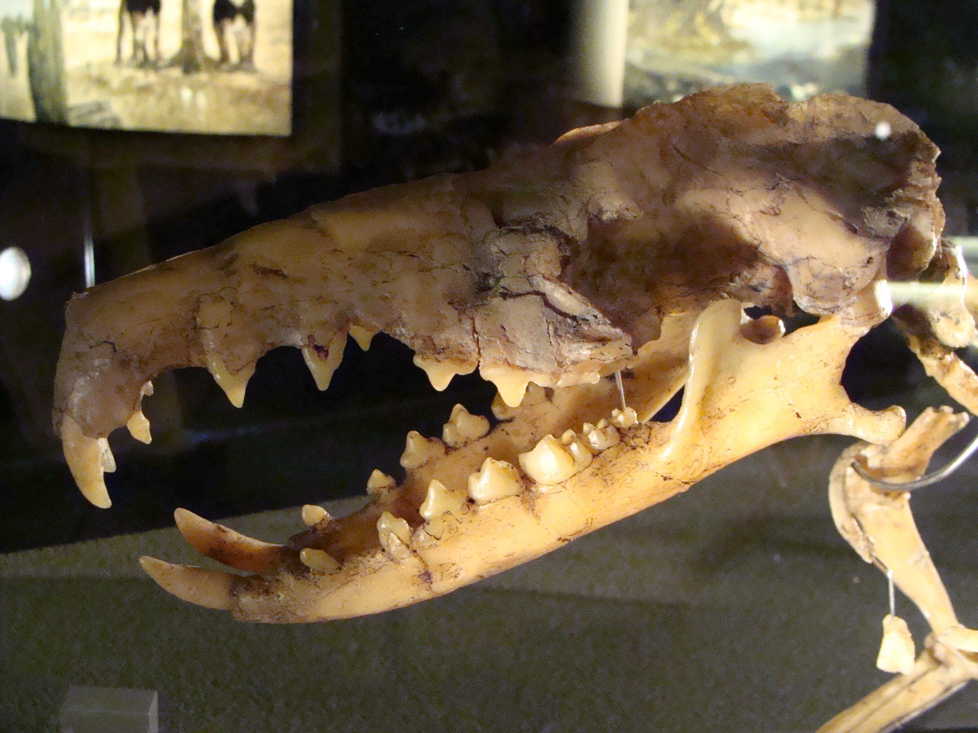 Deinogalerix koenigswaldi was a giant hairy hedgehog. This fossil (from South Gargano, Italy / 25-2,5 million years old) is on display in the National Museum of Natural History "Naturalis" in Leiden, the Netherlands.